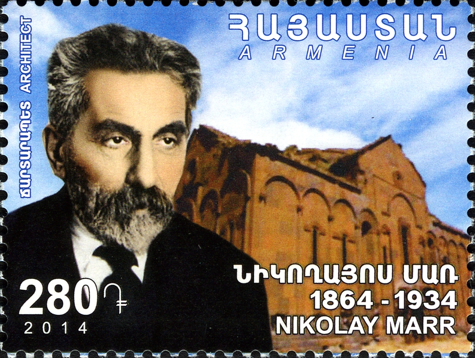 History of Armenian Architecture - 150th Anniversary of Nikolay Marr